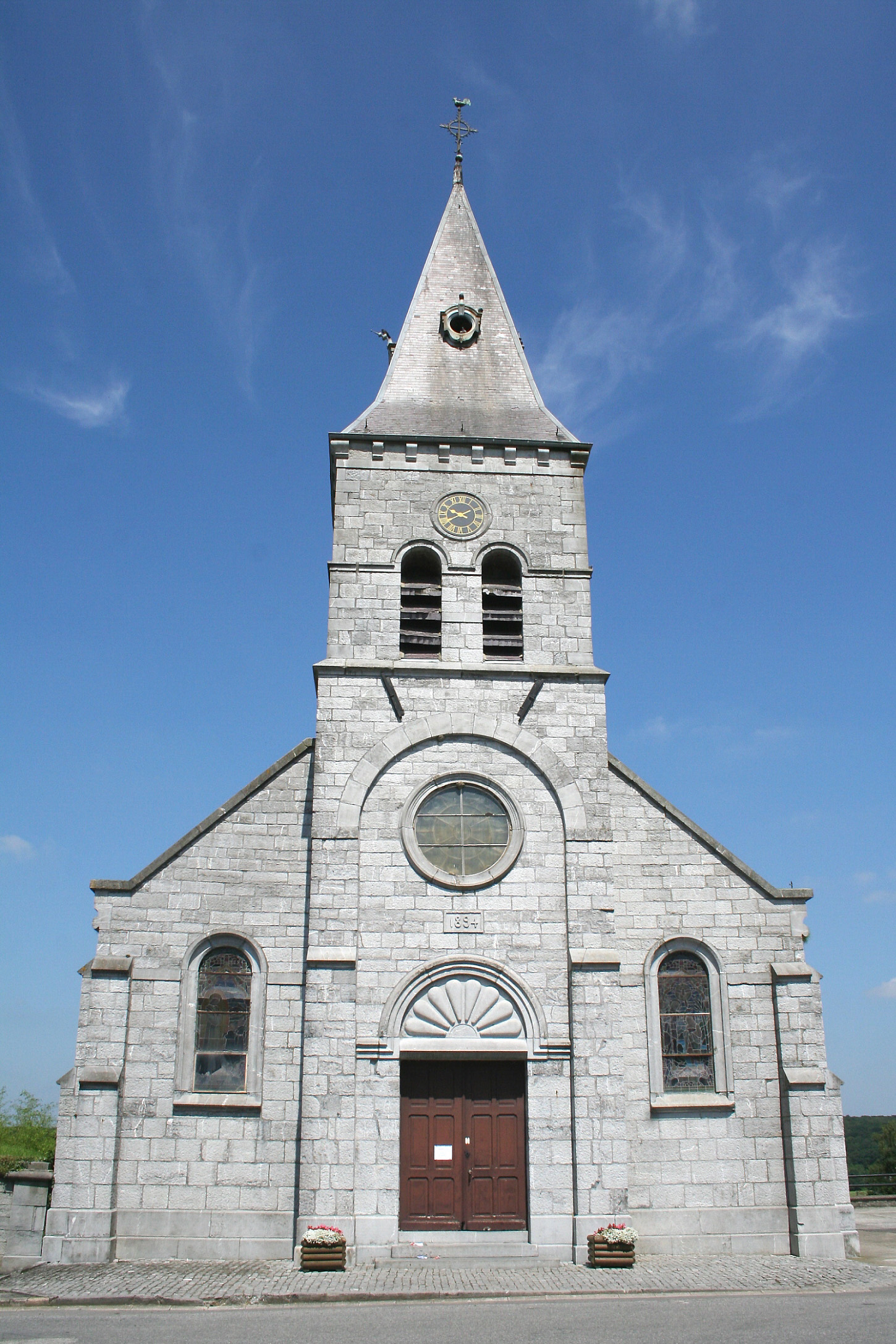 Bailièvre (Belgium), the Saint-Joseph church (1894).